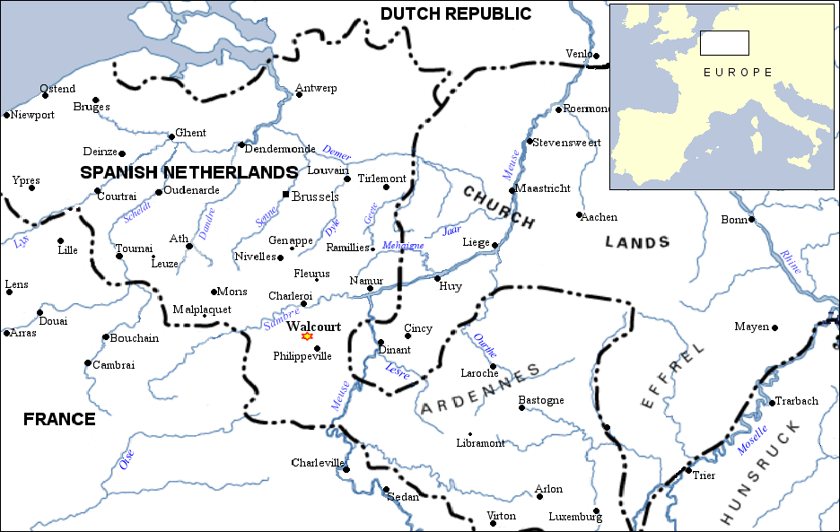 This image is self-made based on original: The Department of History, United States Military Academy